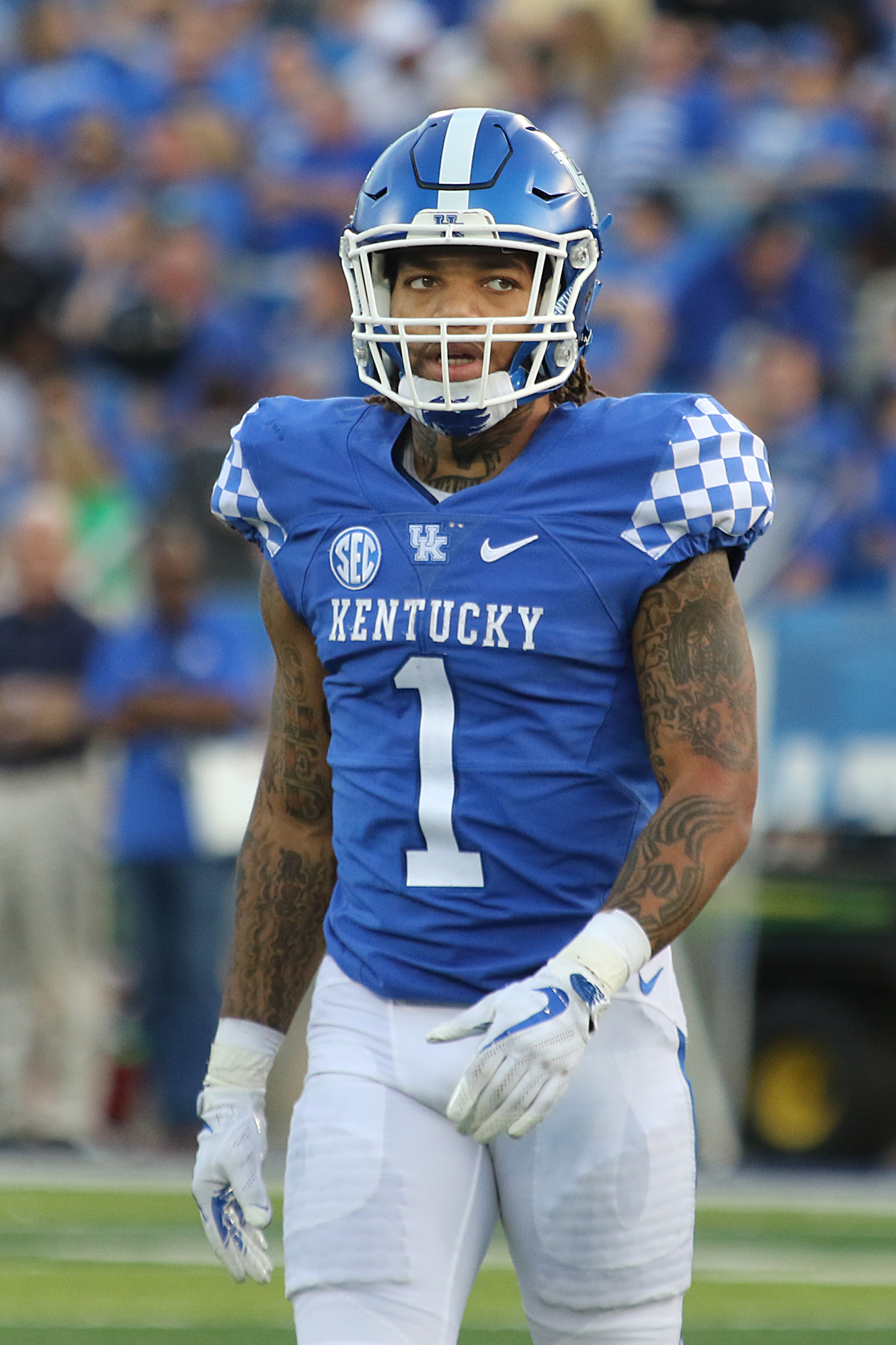 University of Kentucky wide receiver Lynn Bowden Jr. during the 2019 Blue and White Game